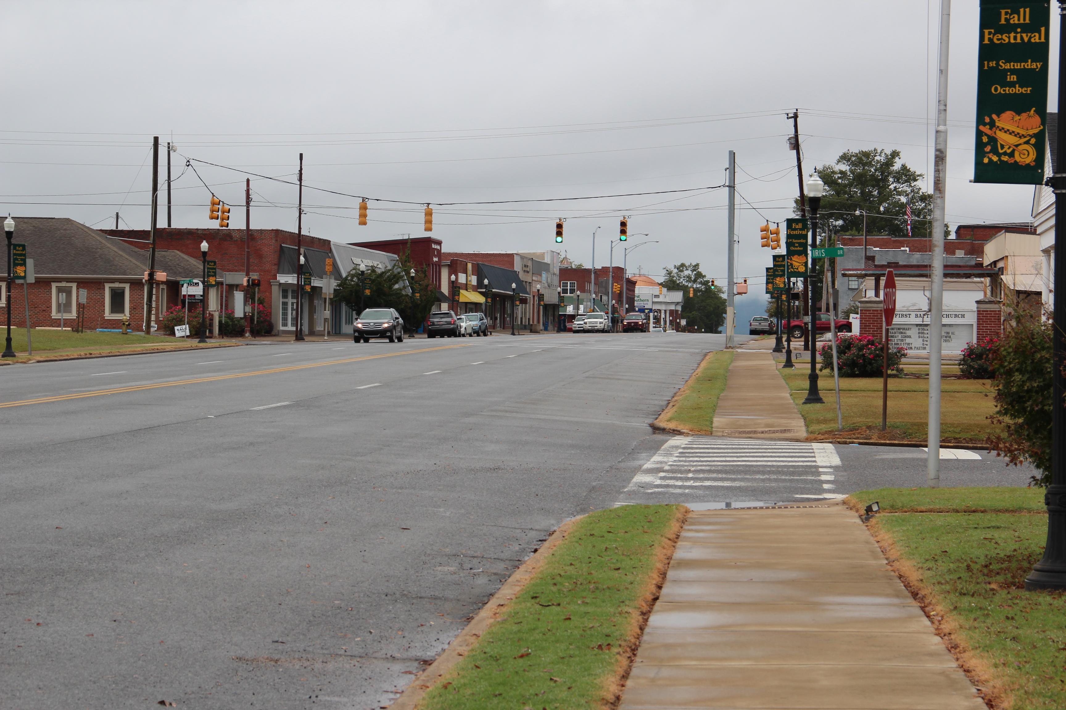 Alabama State Route 25 in Centre, Alabama